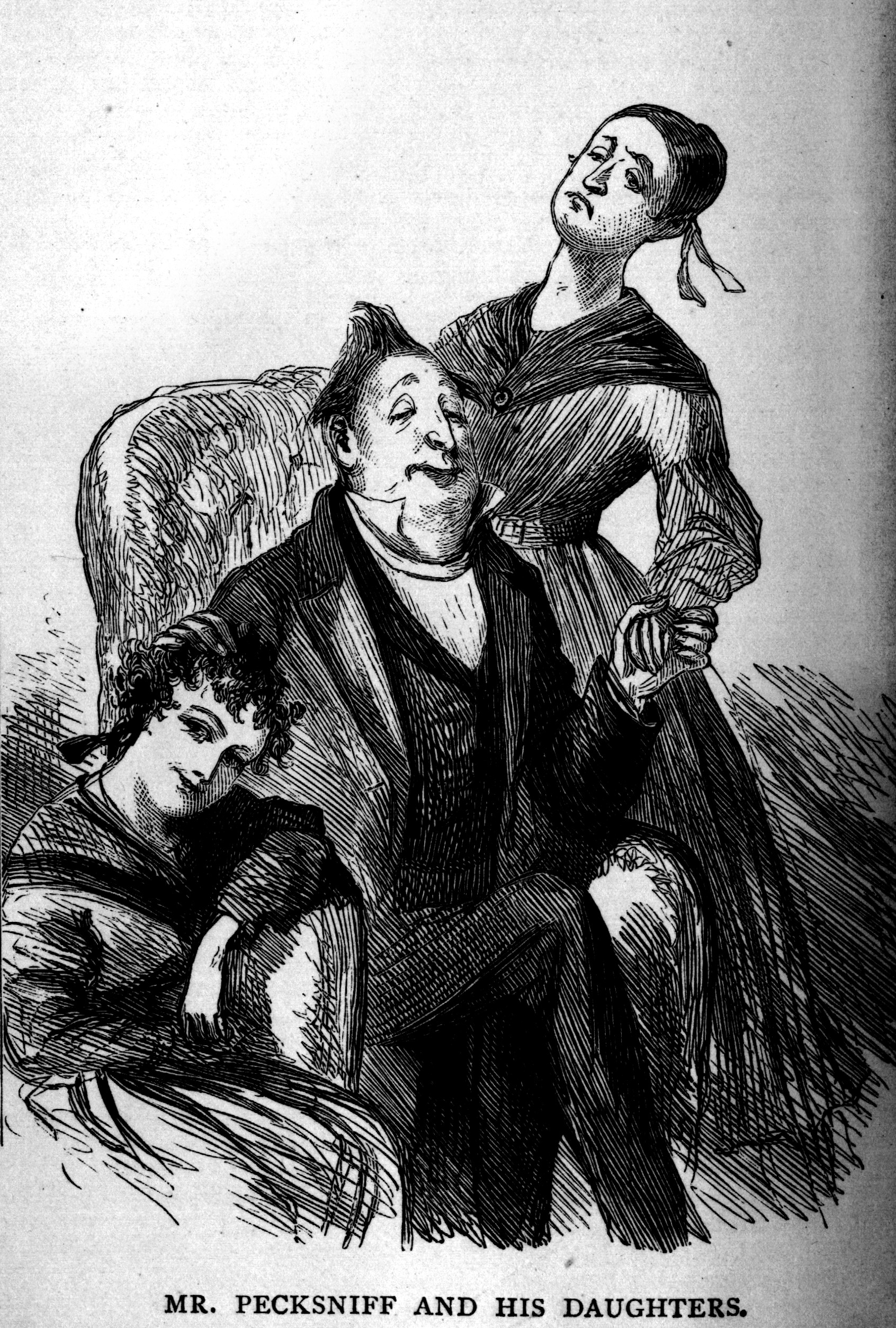 Illustration from 1867 U.S. edition of Martin Chuzzlewit. Page 9. "Mr. Pecksniff and his daughters"